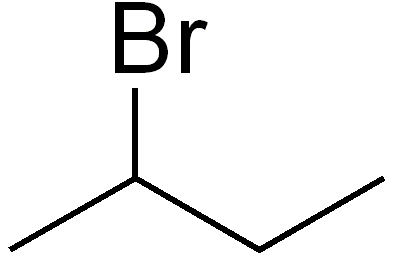 chemical structure of 2-bromobutane